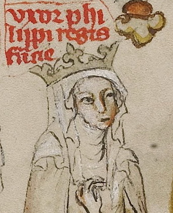 Agnes of Merania